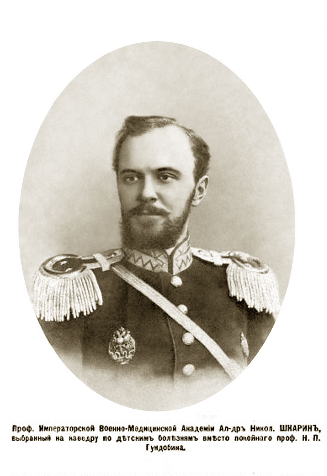 Shkarin Alexander professor of Pediatrics